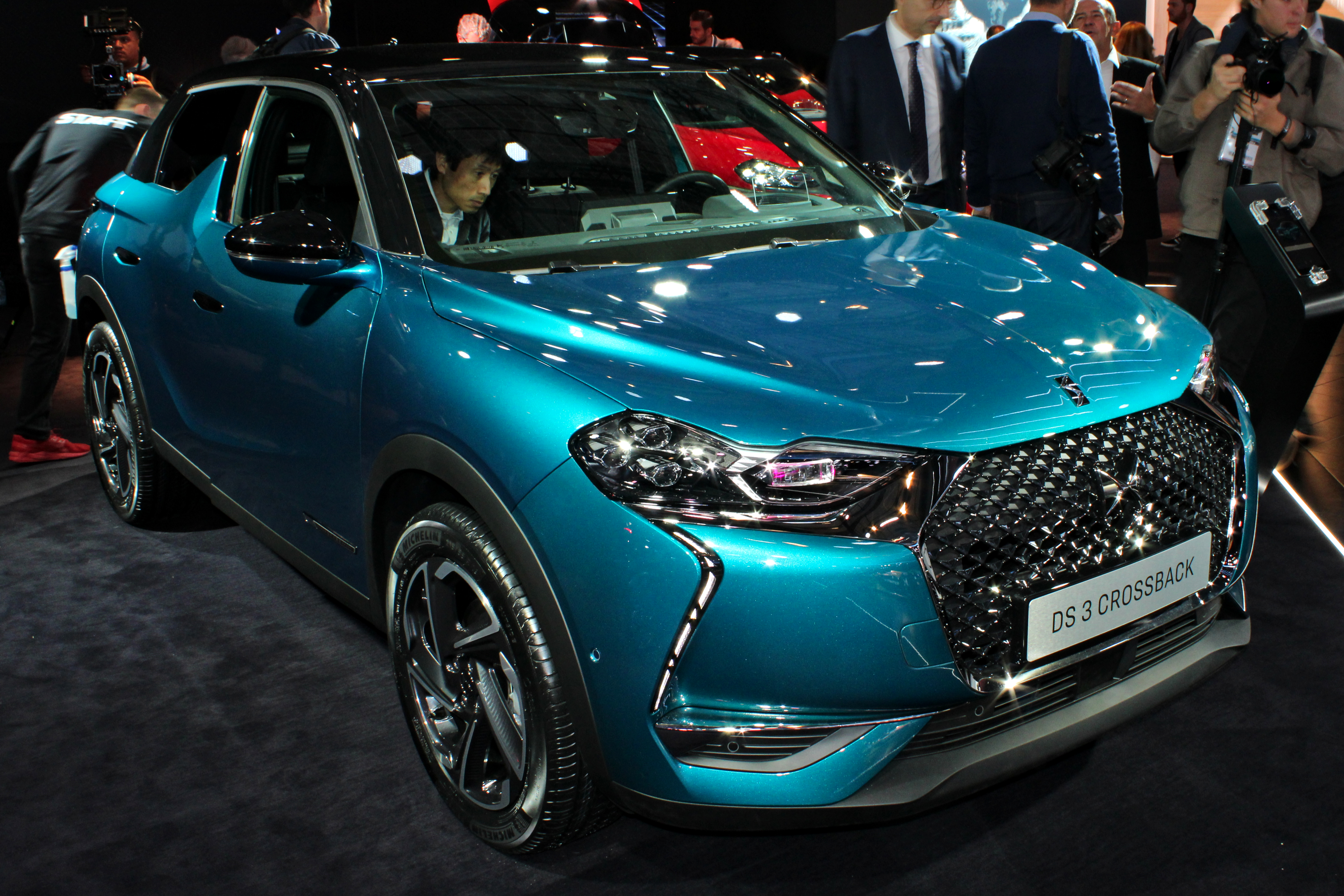 DS3 Crossback at Paris Motor Show 2018